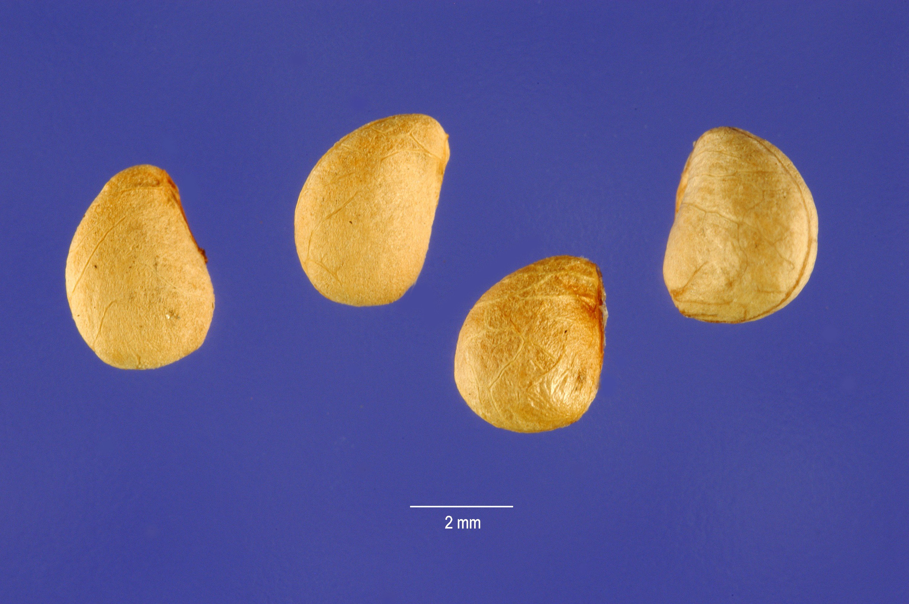 Cloudberry (Rubus chamaemorus L.)